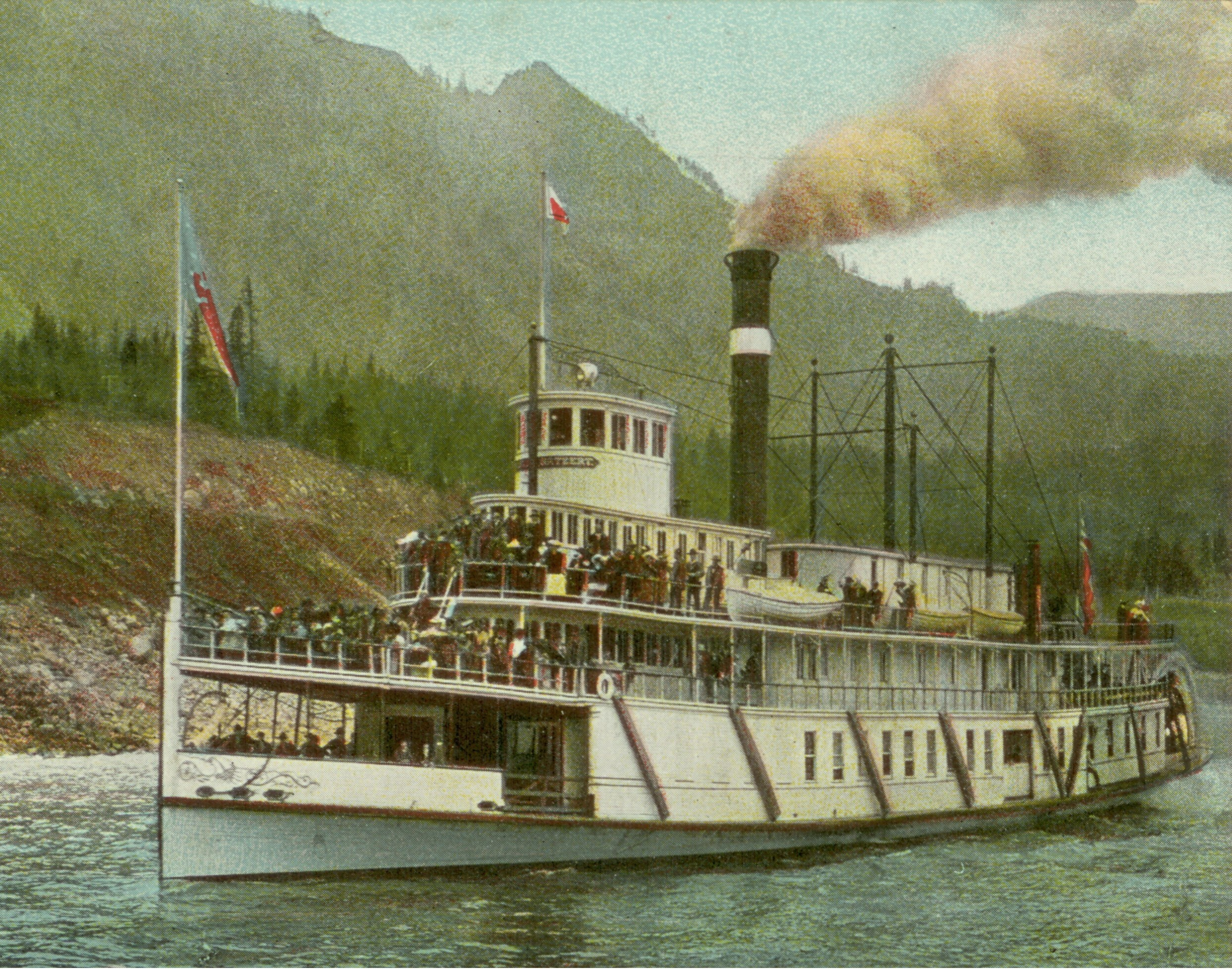 This is a scan from an old postcard, the writing on the back is dated 1910.